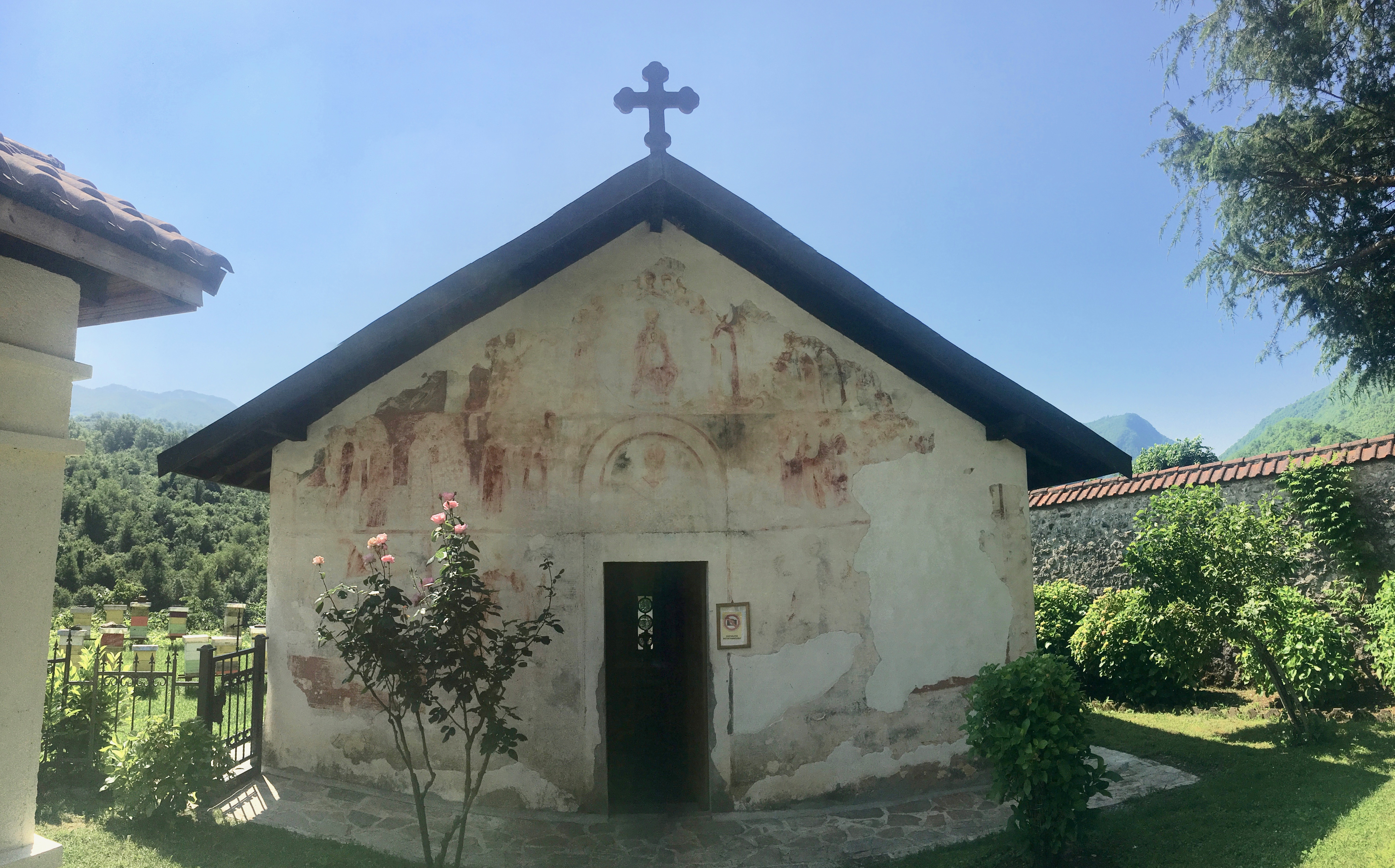 Sant Nicholas Chapel in Morača Monastery, Montenegro